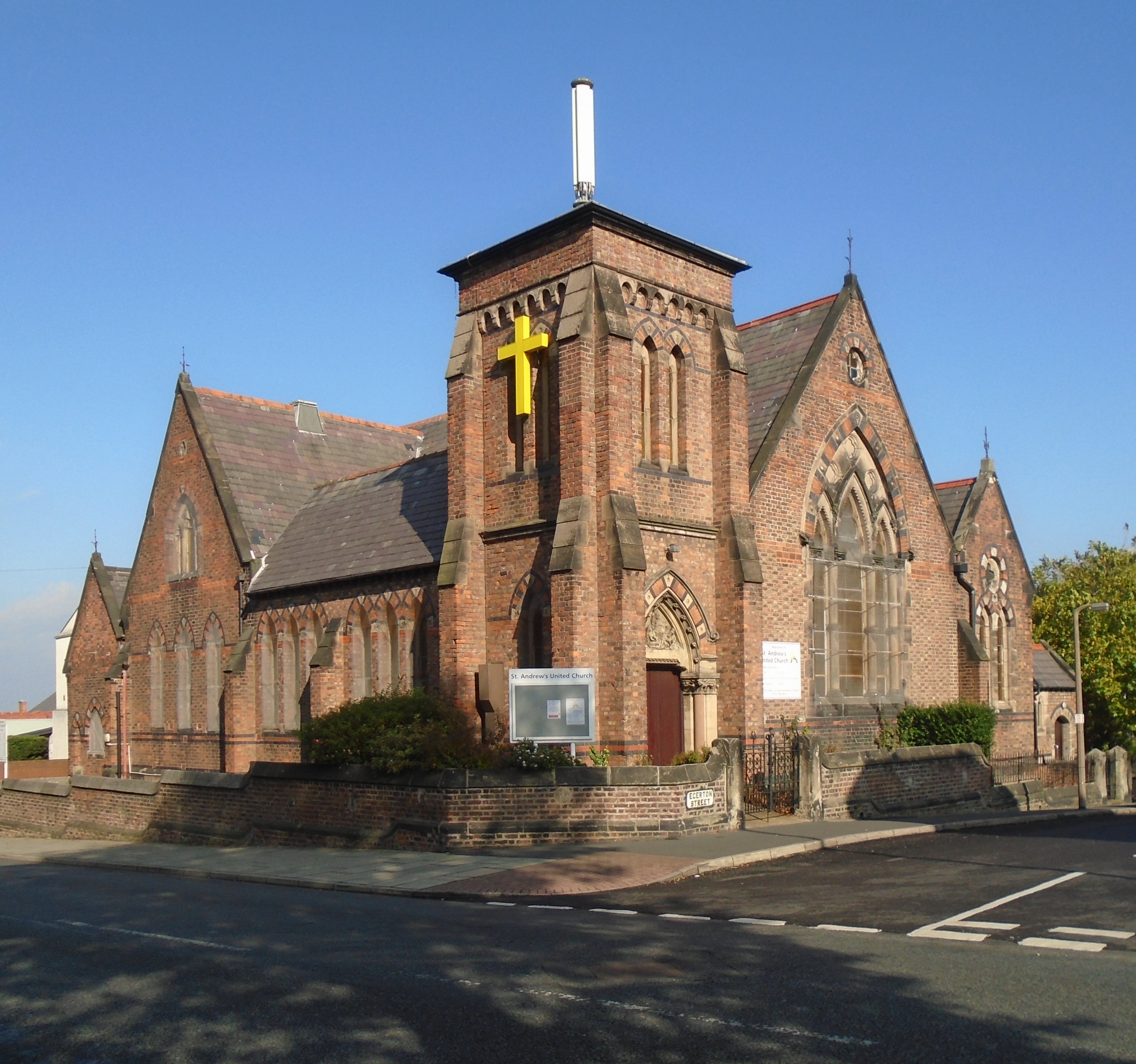 On the corner of Rowson St & Egerton St.